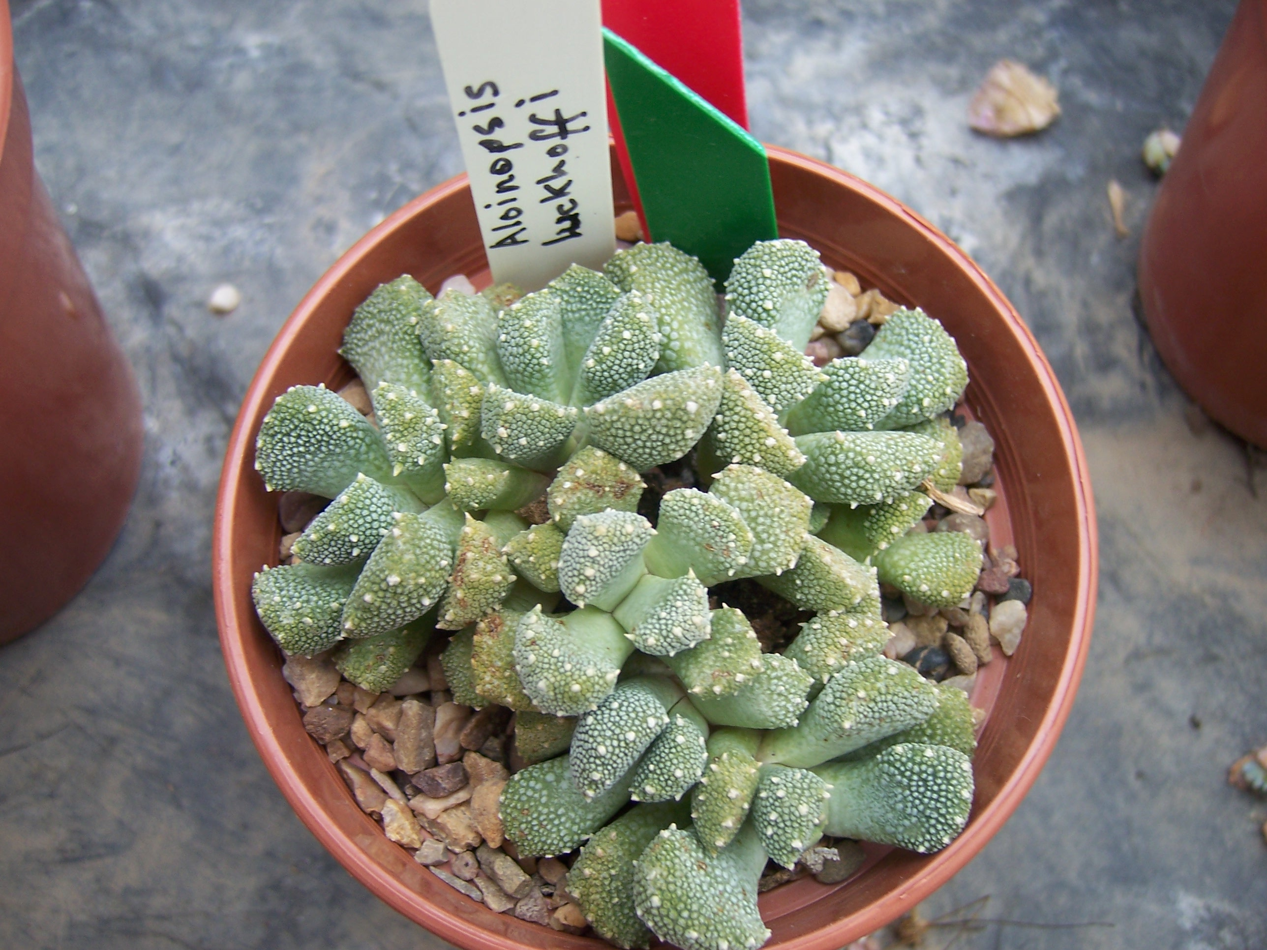 Alionopsis Luckhoffi